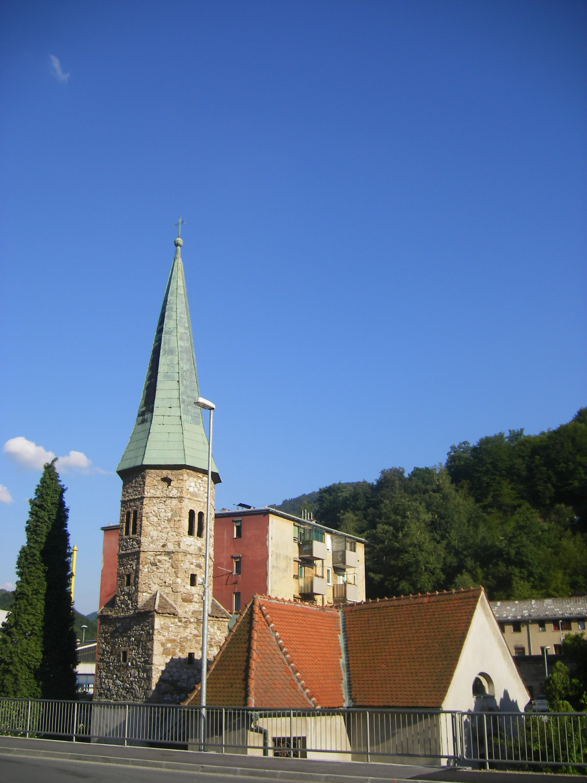 Hrastnik, Church of Saint Nicholas in Podkraj